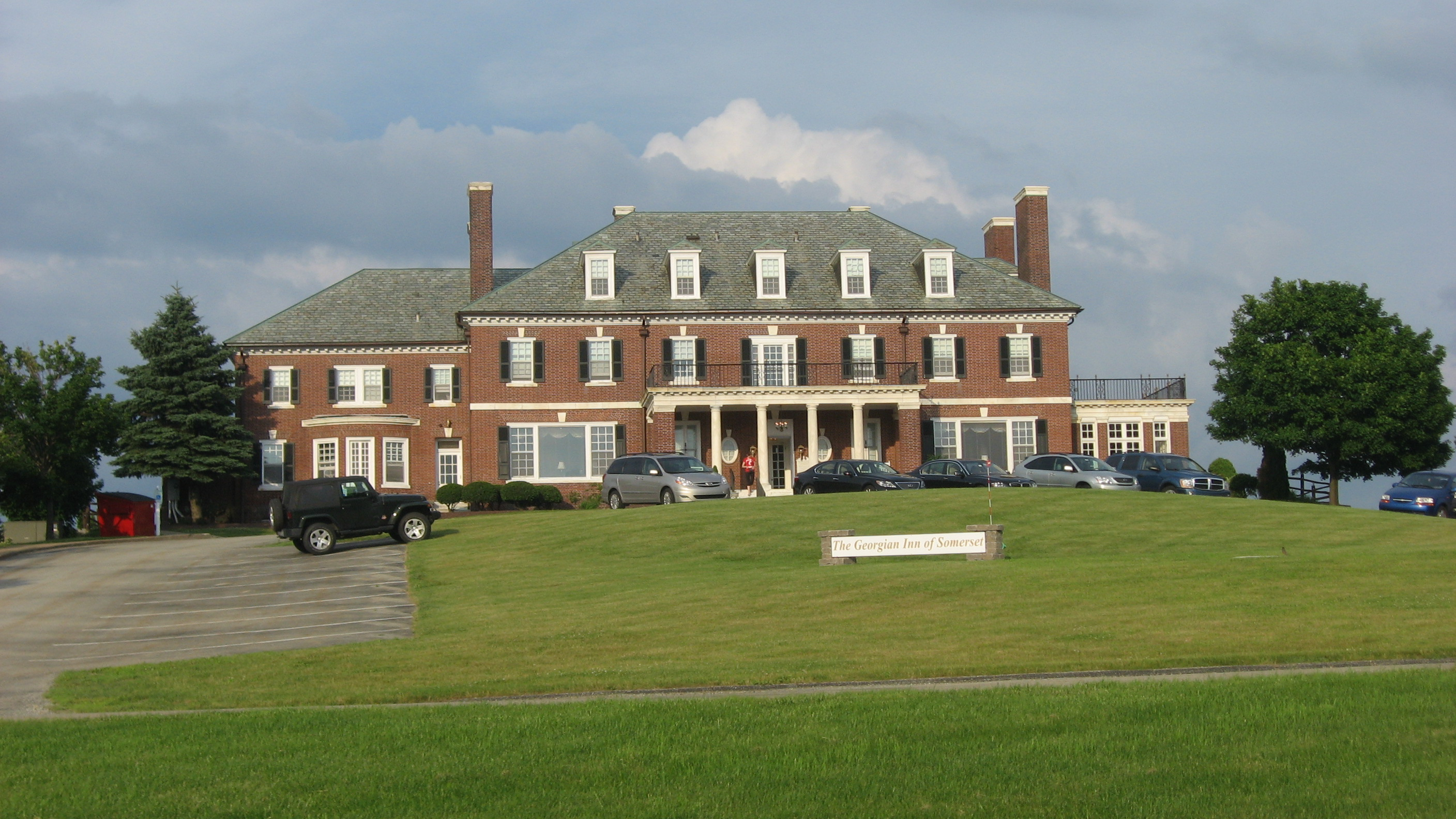 Front and western side of the Daniel B. Zimmerman Mansion, located at 800 Georgian Place Drive north of Somerset in Somerset Township, Somerset County, Pennsylvania, United States. Built in 1915, it is listed on the National Register of Historic Places.